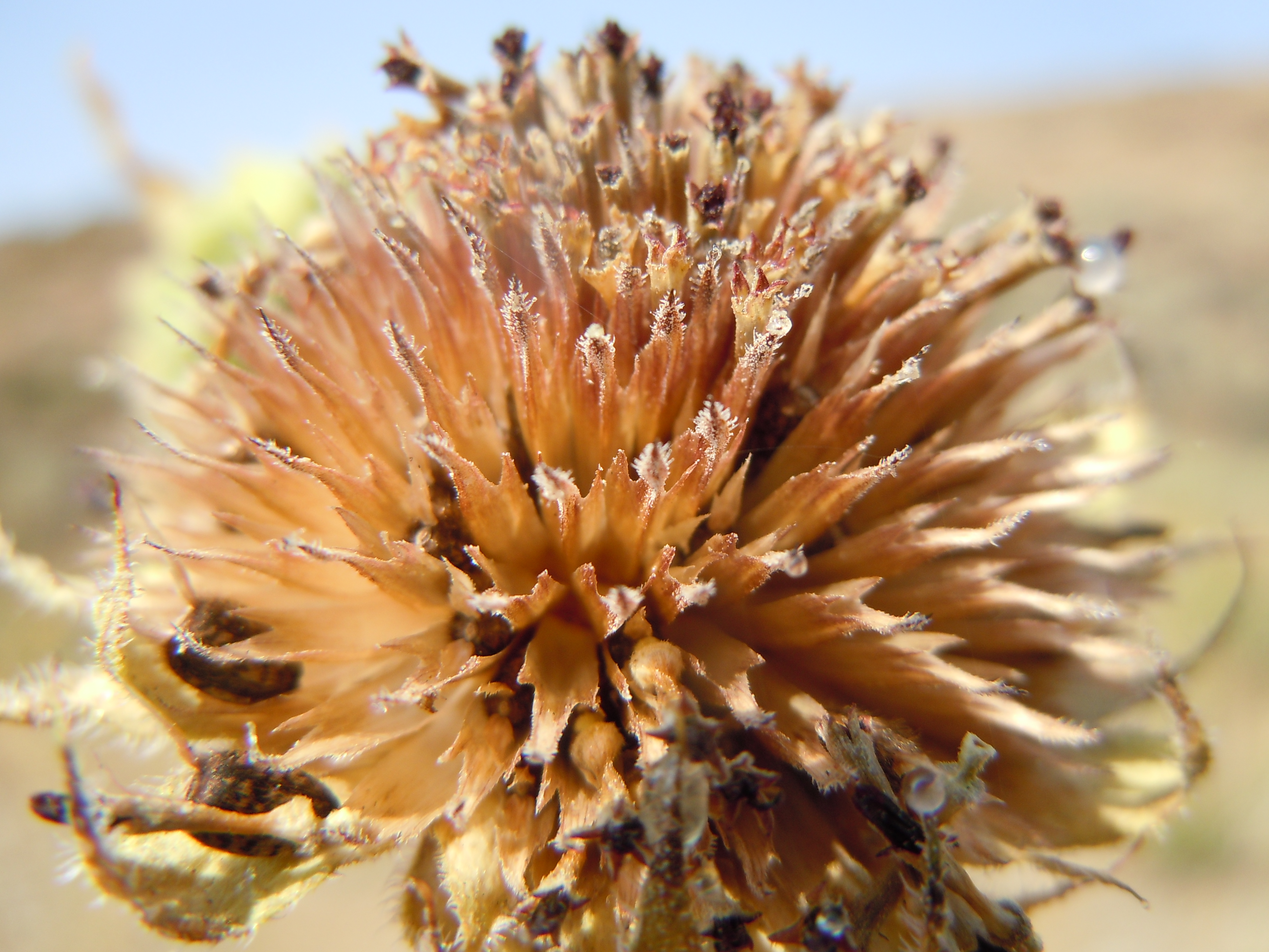 Helianthus annuus rather than H. petiolaris predominates along the roadsides in the upper Snake River plains area.